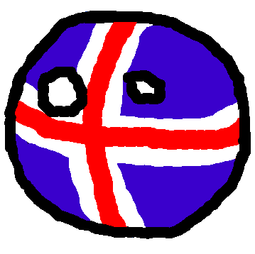 Icelandball, a Nordic countryball